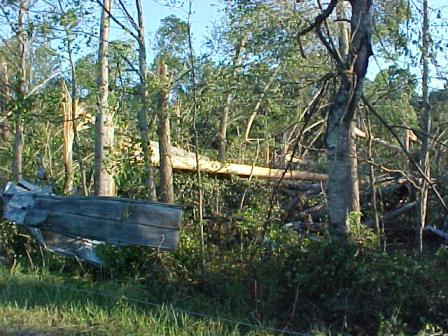 Tree damage from Tropical Storm Bill in July 2003 on in Morgan County, Georgia